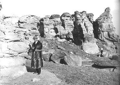 Brown in 1914 doing field work in Montana. From Preston, Fig. 19 (Douglas J. Preston, Dinosaurs in the Attic: An Excursion into the American Museum of Natural History (St. Martin's, 1986))